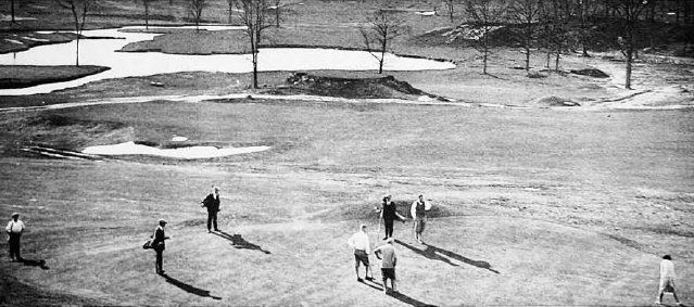 Westchester-Biltmore Golf Course, designed by Walter J. Travis. 14th hole (East Course) and 13th hole (South Course) shown here.